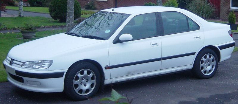 created by Mazurka